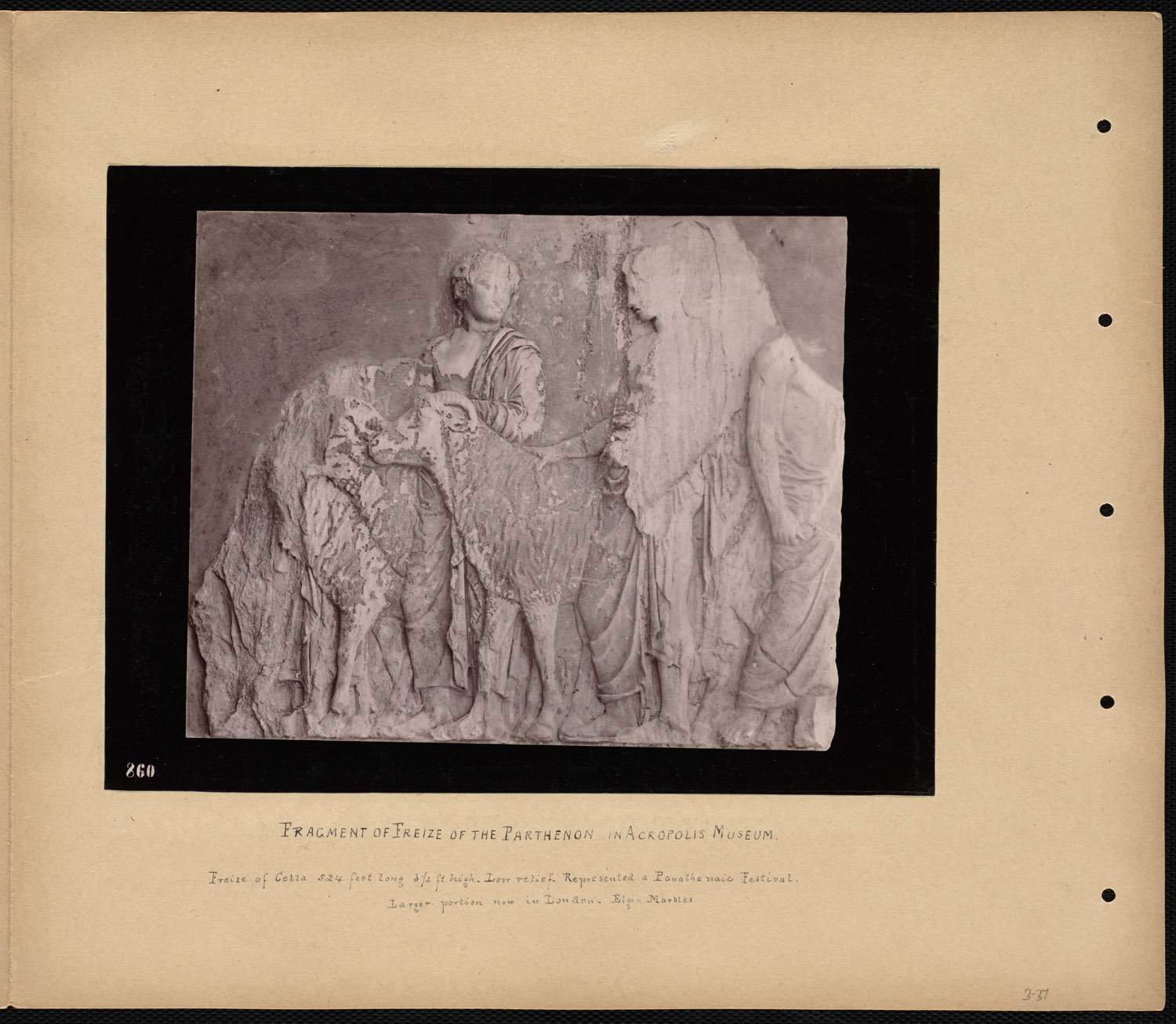 BPLDC no.: 08_04_000420 Page Title: Fragment of freize [sic] of the Parthenon in Acropolis museum Collection: Tupper Scrapbooks Collection Album: Volume 3: Athens. Call no.: 4098B.104 v3 (p. 37) Creator: Tupper, William Vaughn Genre: Scrapbooks; Albumen prints Extent: 1 photographic print mounted on page : albumen ; page 33 x 39 cm. Description: Scrapbook page contains one photograph showing a fragment of a frieze from the Parthenon with a bas-relief showing people standing beside a goat. Transcription: Freize [sic] of Cella 524 feet long 3 1/2 ft high. Low relief. Represented a Panathenaic Festival. Larger portion now in London. Elgin marbles. Notes: Page description supplied by cataloger, derived from captions and/or annotated information.; Caption on image: 860 BPL Department: Print Department Rights: No known restrictions. Flickr data on 2011-08-26: Camera: Sinar AG Sinarback 54 FW, Sinar m License: CC BY 2.0 User: Boston Public Library Boston Public Library